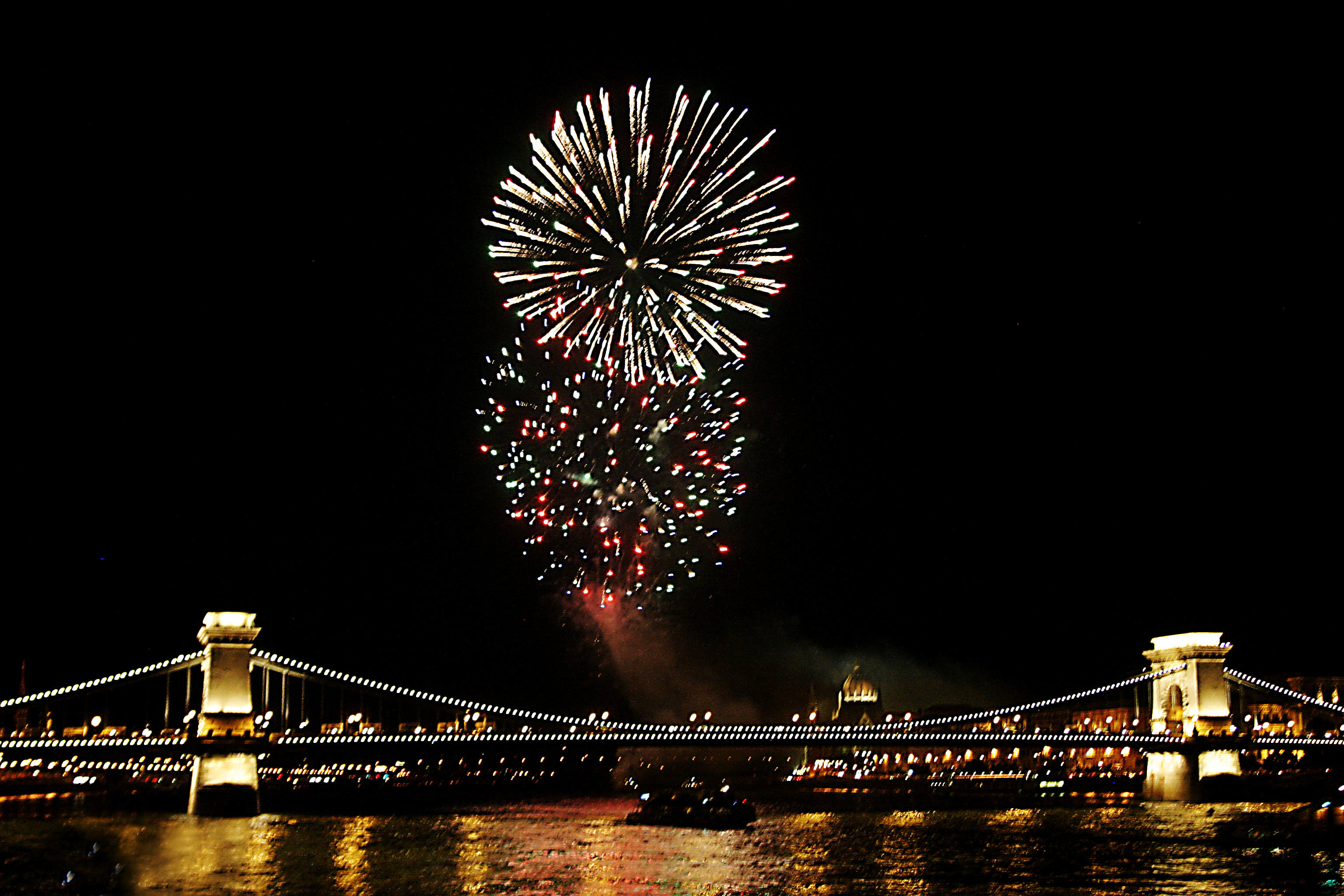 Bastille Day celebration near Chain Bridge, Budapest